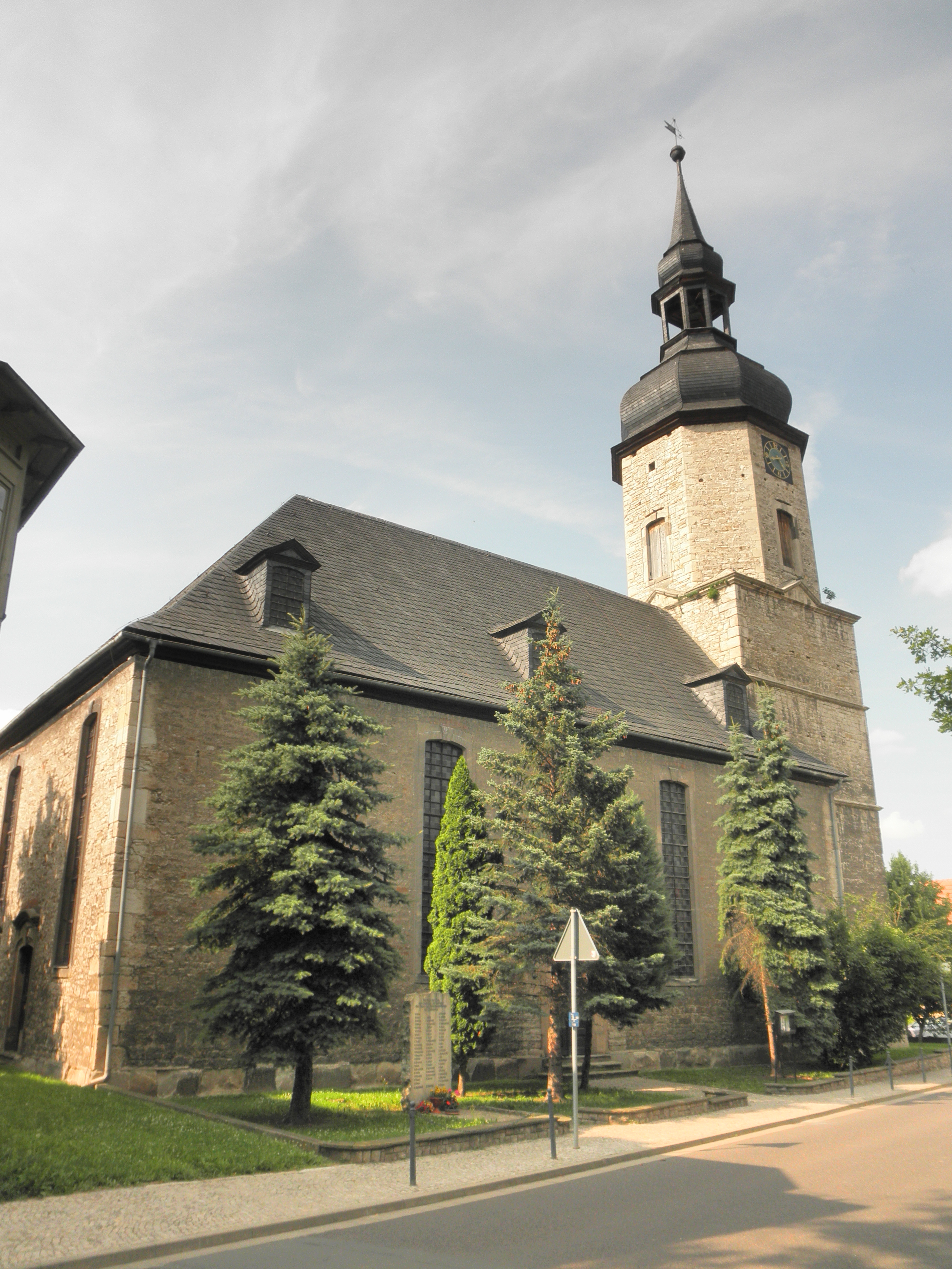 Church in Niedertrebra in Thuringia